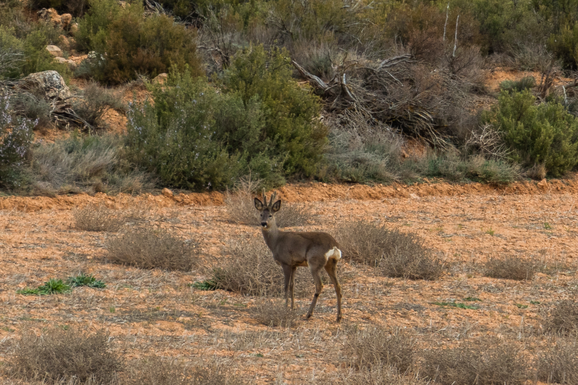 Roe deer (Capreolus capreolus), Santa María de Huerta, Soria, Spain